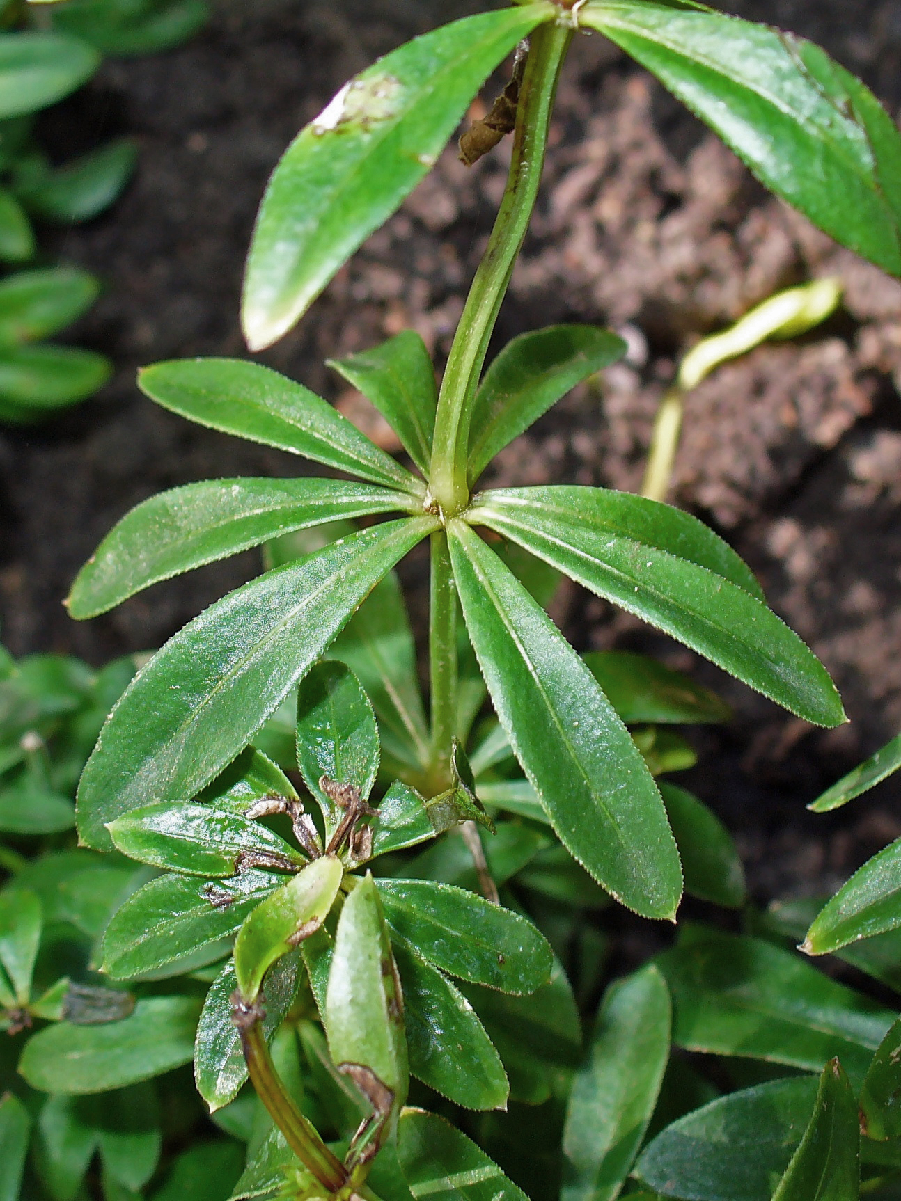 Galium odoratum, Rubiaceae, Woodruff, leaves; Erholungspark Marzahn, Berlin.Unknown